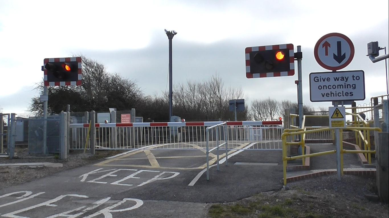 Havensmouth MCB-CCTV Level Crossing, located in East Sussex